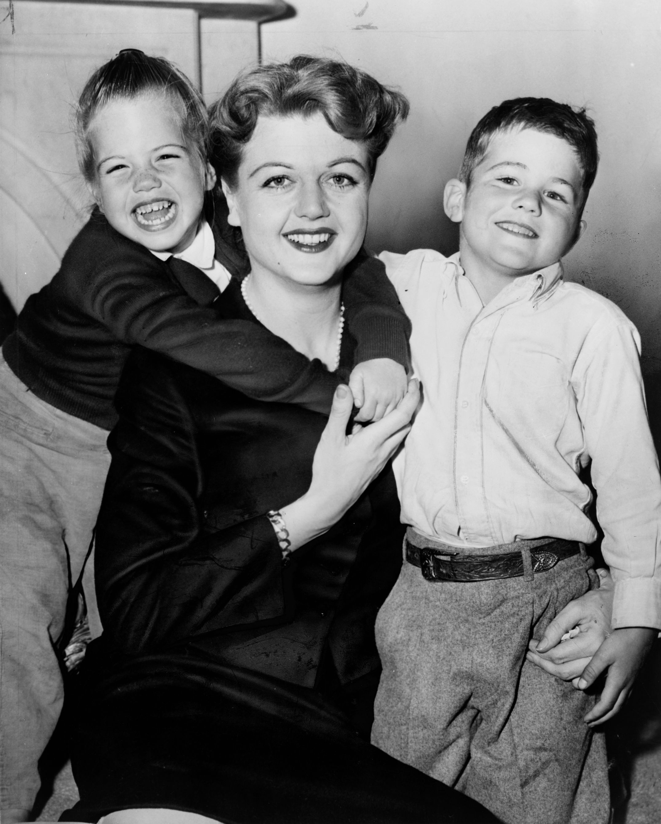 Angela Lansbury, three-quarter length portrait, seated with daughter Deidre and son Anthony / World Telegram & Sun photo by Roger Higgins.